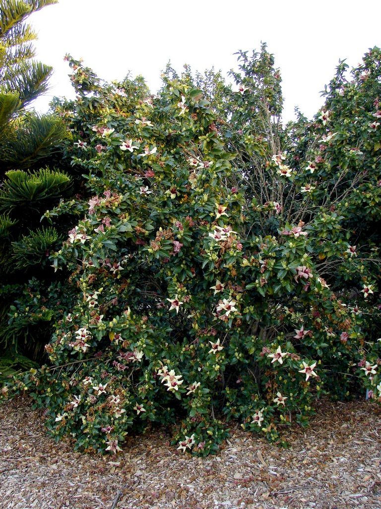 She is in full bloom Hibiscus insularis- Phillip Island Hibiscus, Endemic to Phillip Island, a small island to the south of Norfolk Island. Location: Mt. Coot-tha Botanic garden, Brisbane